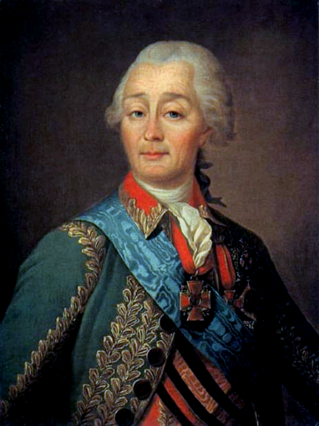 Alexander Suvorov